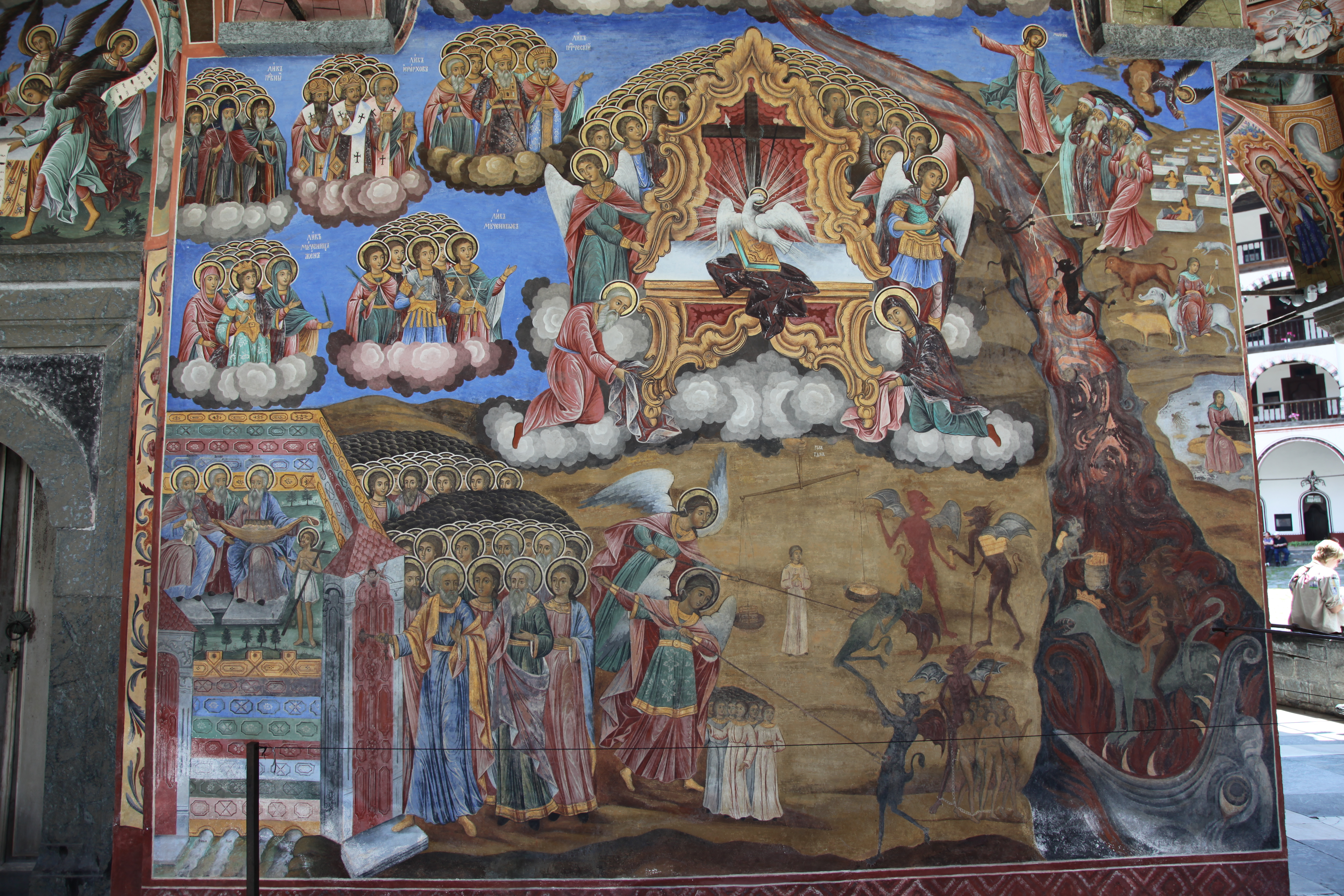 Dekorations on the outside of the church in Rila Monastery